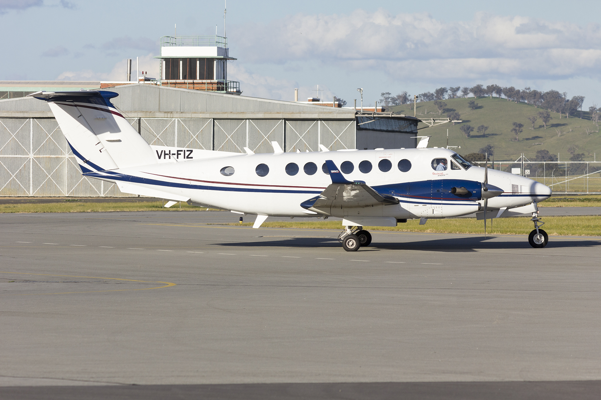 Pearl Aviation (VH-FIZ) Beechcraft B300 Super King Air 350, on contract for Airservices Australia Flight Inspection Service, taxiing at Wagga Wagga Airport.